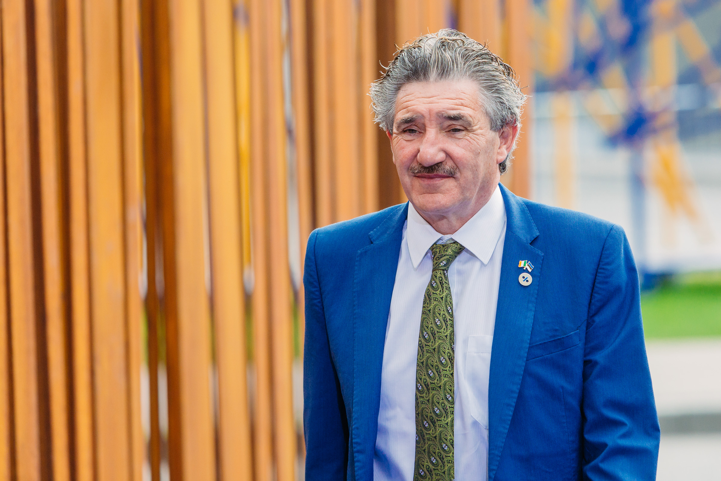 John Halligan, Minister for Training, Skills, Innovation, Research and Development, Department of Jobs, Enterprise & Innovation, Ireland Photo: Arno Mikkor (EU2017EE)